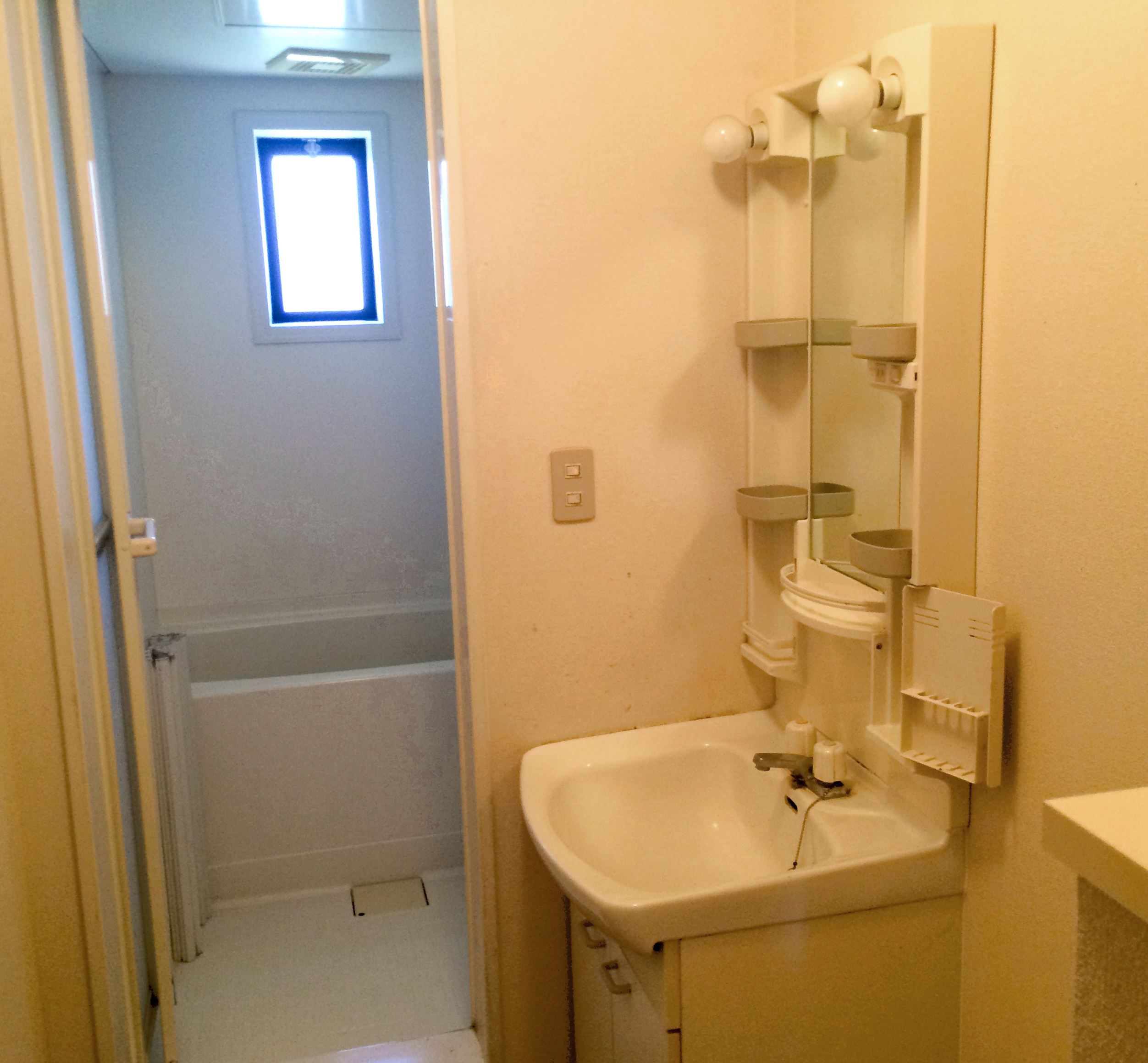 Senmenjo (room with a a washbasin) and furoba (bathroom) in a Japanese house